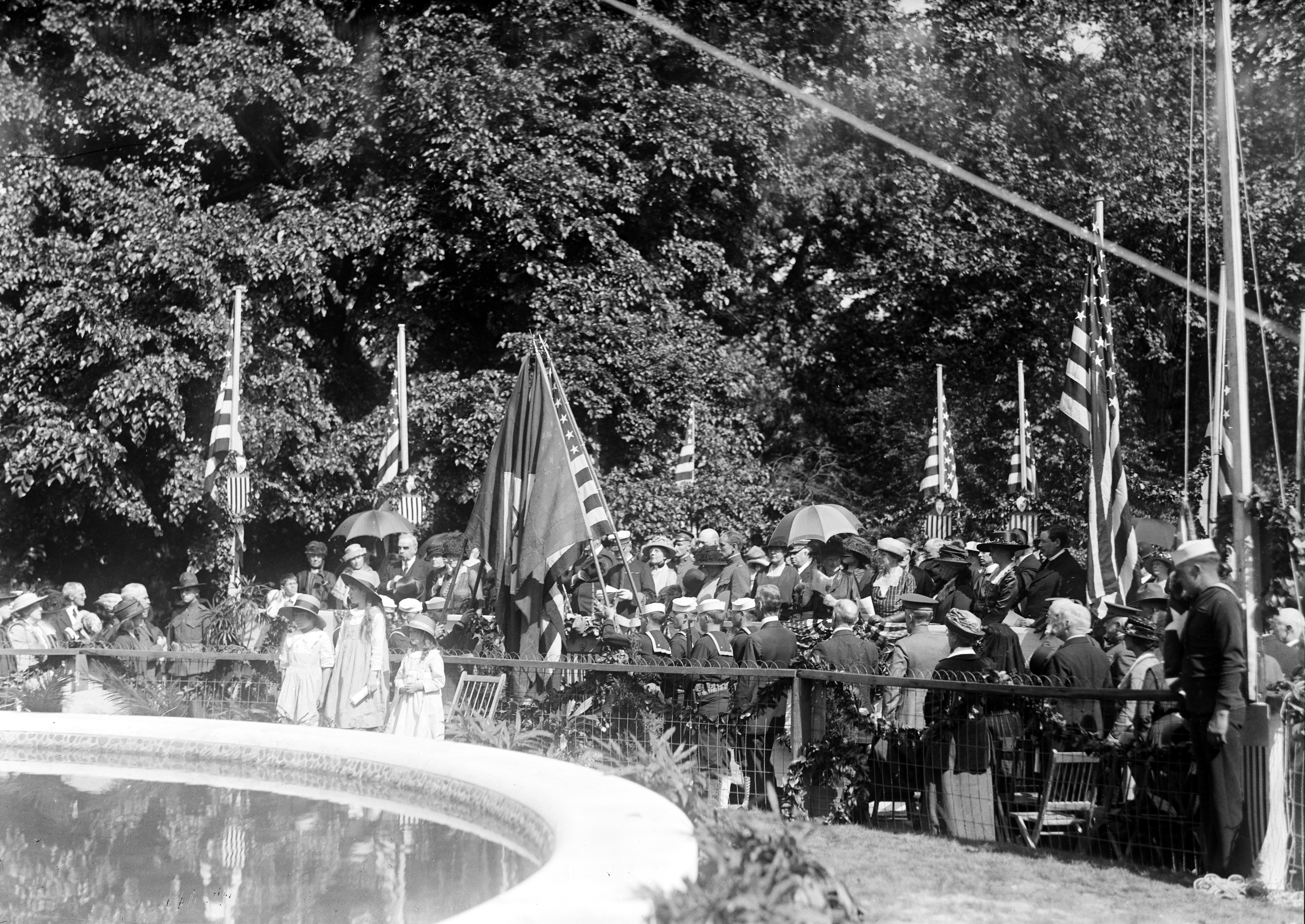 [Ceremony at Dupont Circle Fountain, Washington, D.C. dedicated on May 17, 1921]